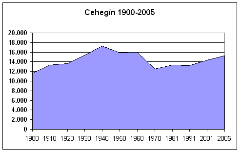 Cehegín's population, Murcia, Spain, (1900-2005). Own work, given to PD. Source: Instituto Nacional de Estadística.